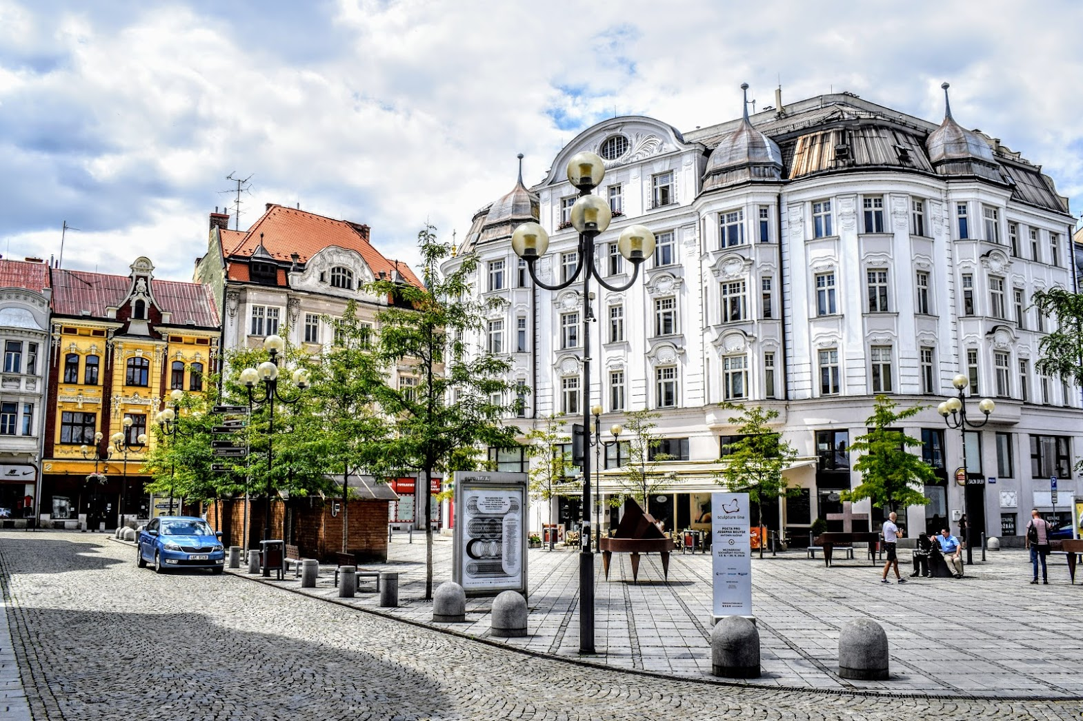 Jiráskovo náměstí, Ostrava